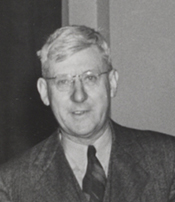 William R. Thom, congressman from Ohio.